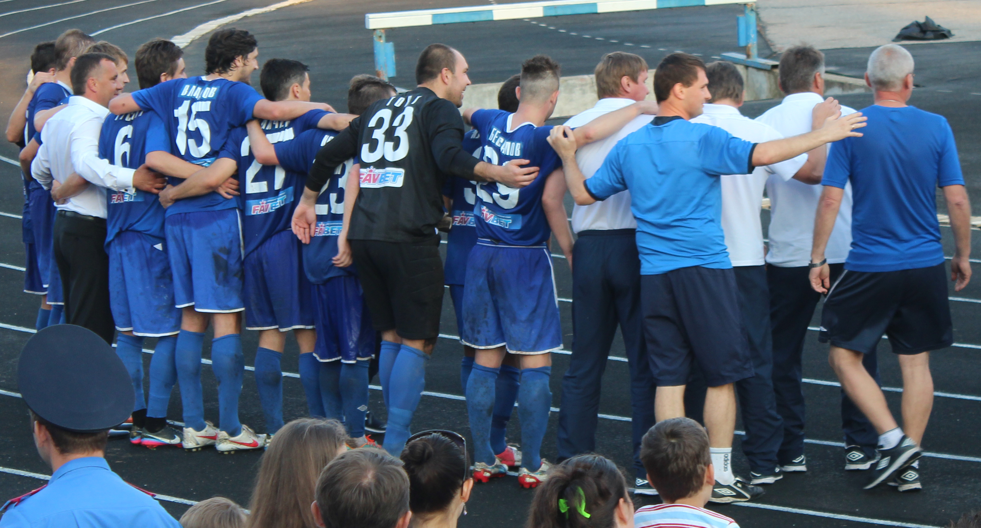 MFC Mykolaiv in 2013